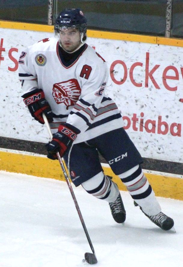 This photo was taken by Devan Mighton during the 2014-15 GOJHL season.